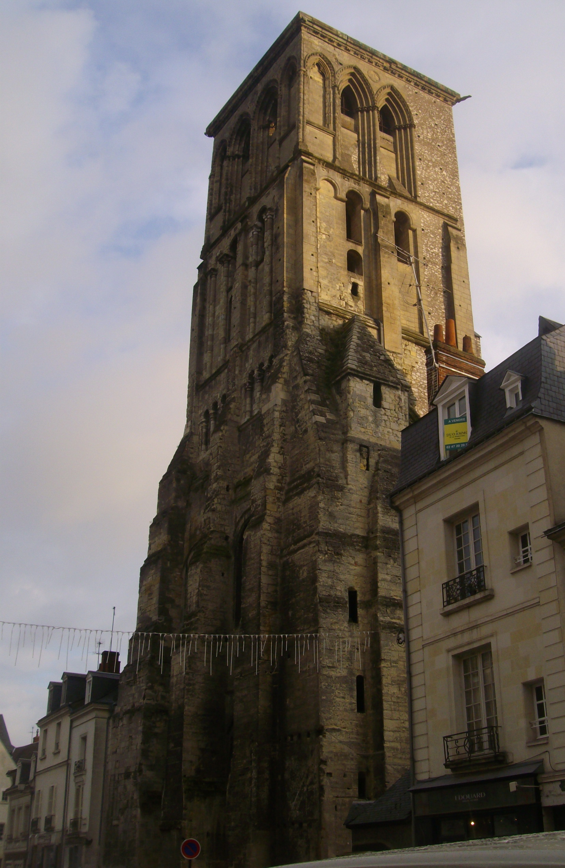 Tour Charlemagne, in Tours.